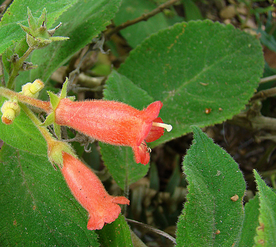 Found mainly in southern Mexico. UC Berkeley Botanical Gardens. In context at